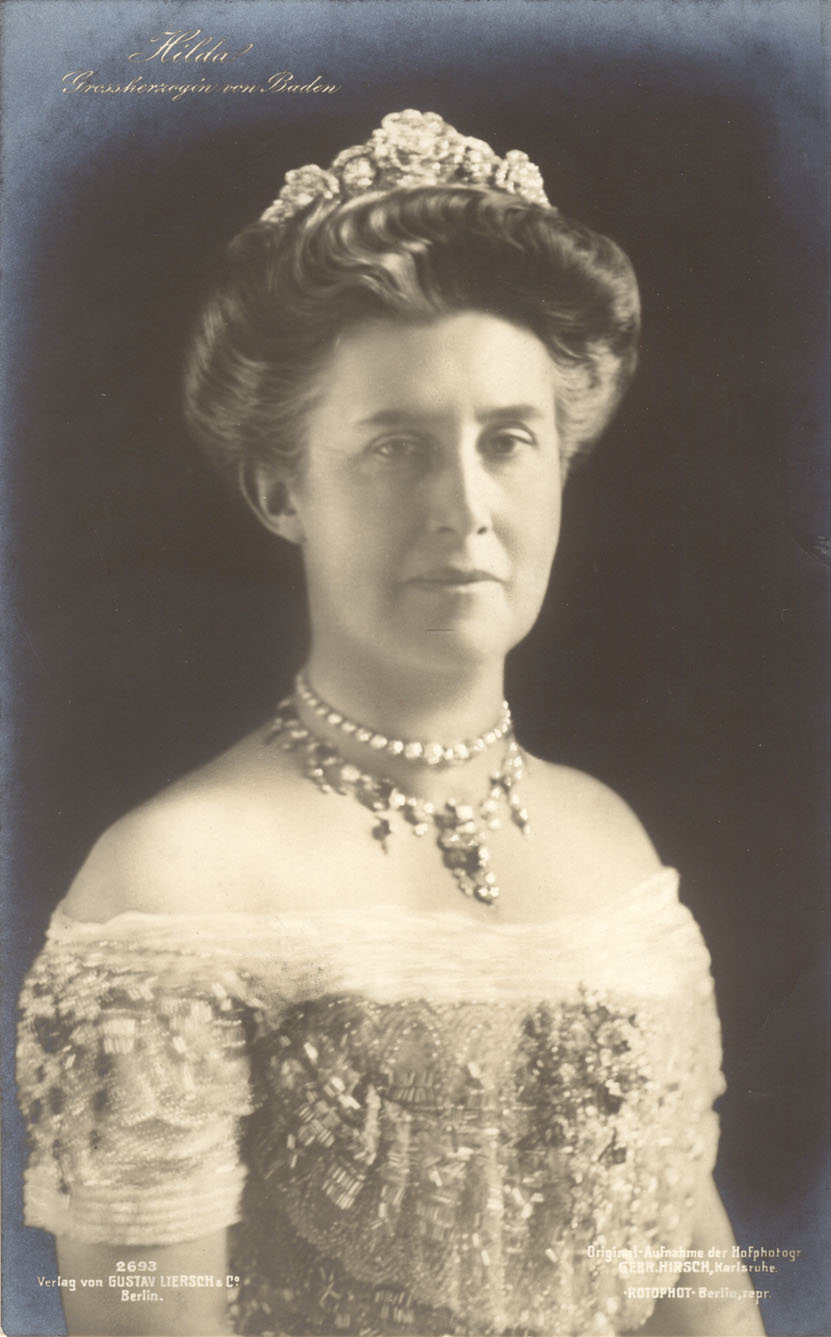 Portrait of Hilda of Luxembourg (1864-1952), Grand Duchess of Baden